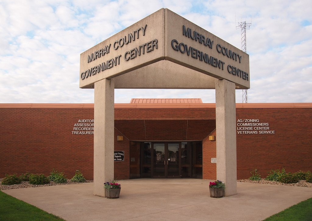 Murray County Government Center, 2500 28th St, Slayton, Minnesota, USA. Viewed from the north.